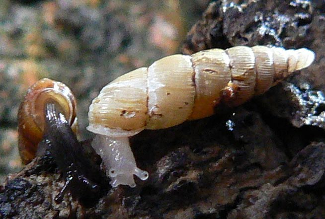 Common and albinotic colour forms of Pseudofusulus varians in the Domaslavické Údolí Nature Reserve.